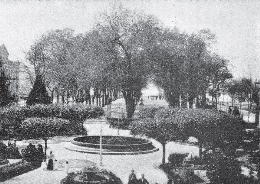 See title